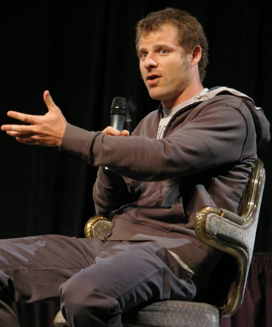 Matt Stone at The Amazing Meeting on January 20, 2007